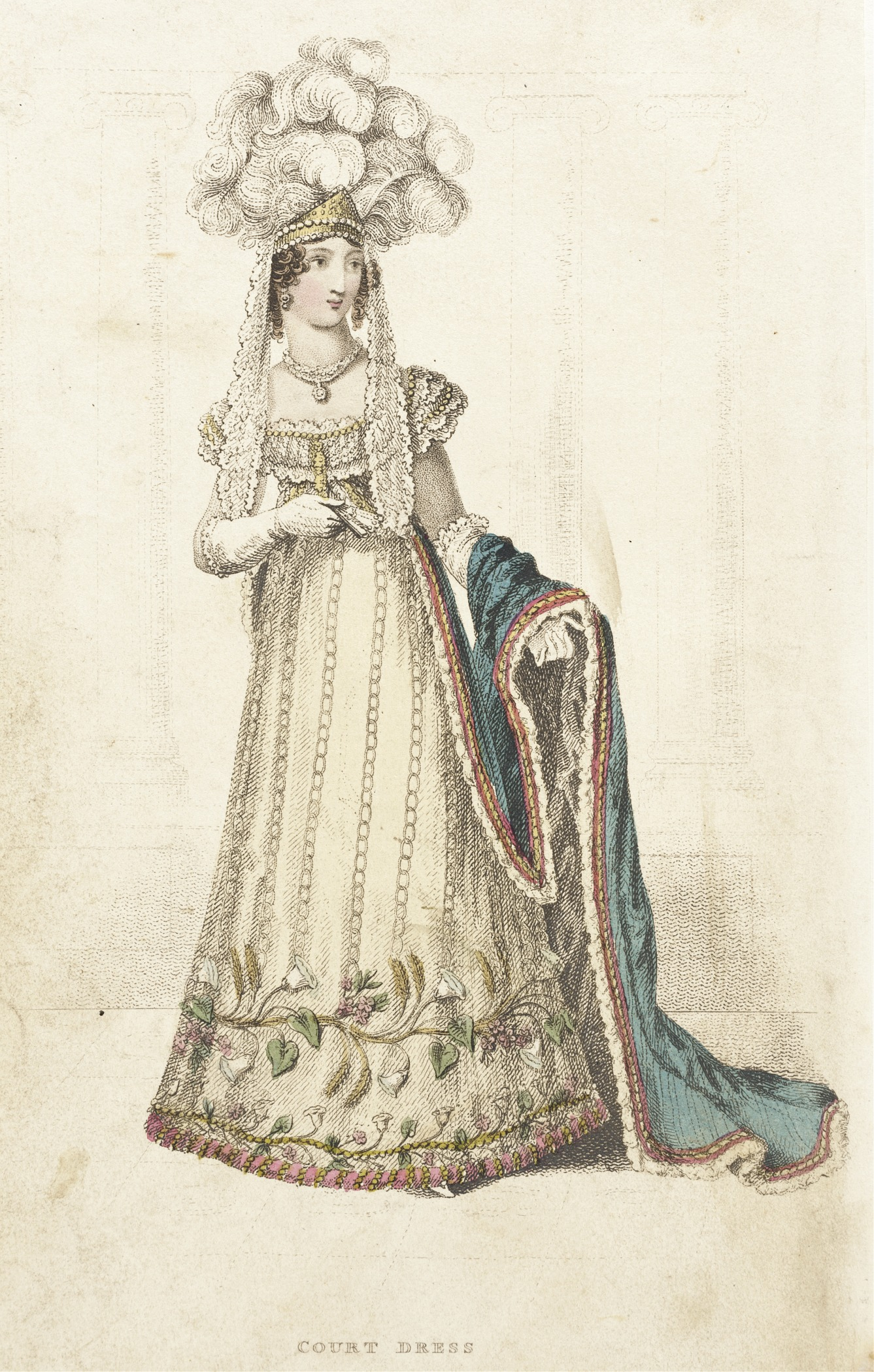 England, London, July 1, 1822 Prints; engravings Hand-colored engraving on paper Gift of Dr. and Mrs. Gerald Labiner (M.86.266.329) Costume and Textiles